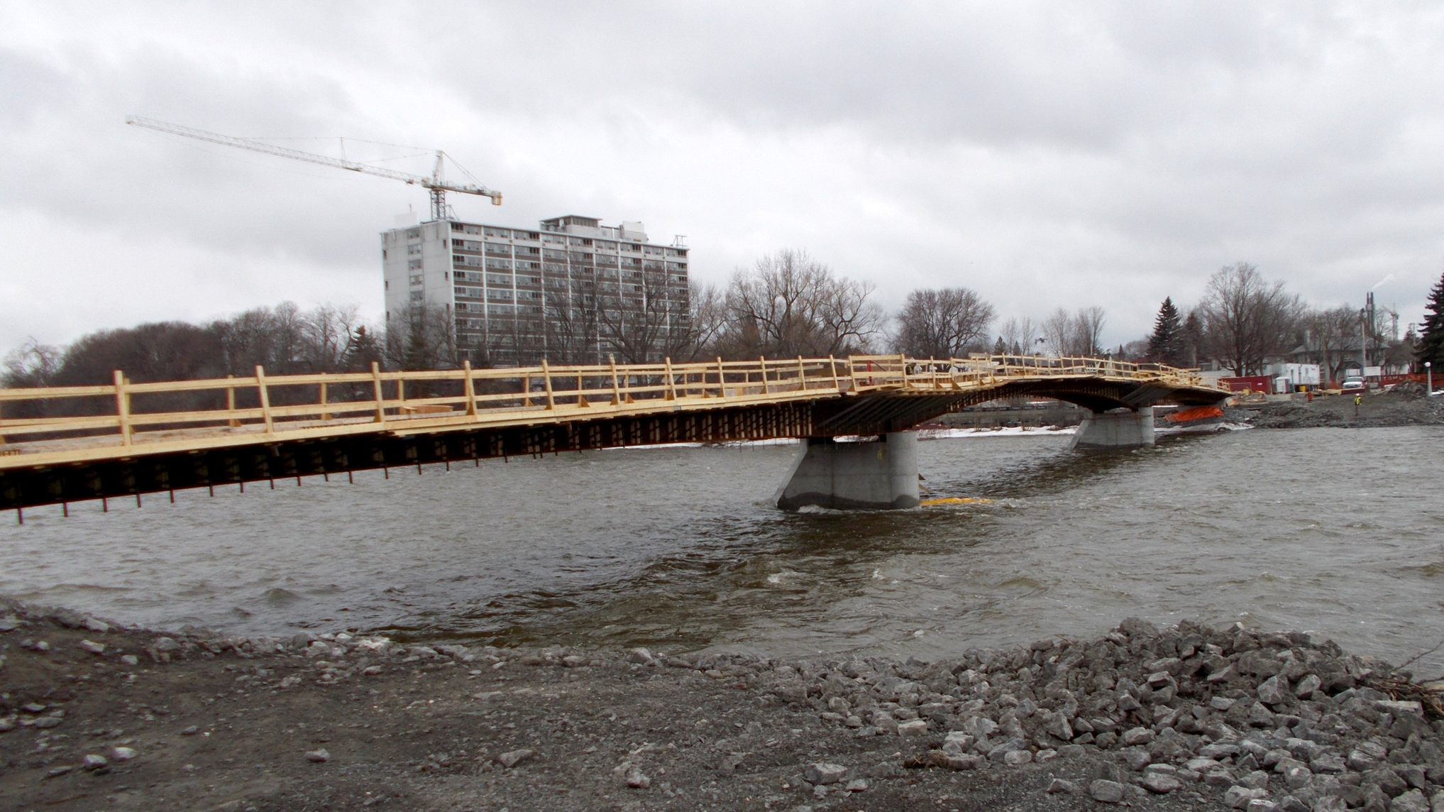 Photo of the under construction Adàwe Crossing taken on April 6, 2015, looking southwest